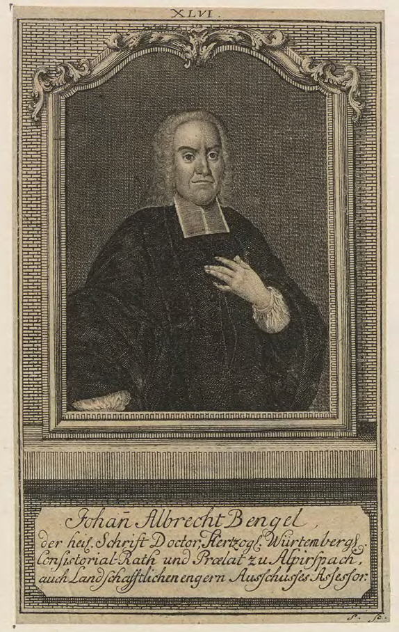 Johann Albrecht Bengel, German Lutheran theologian and pietist